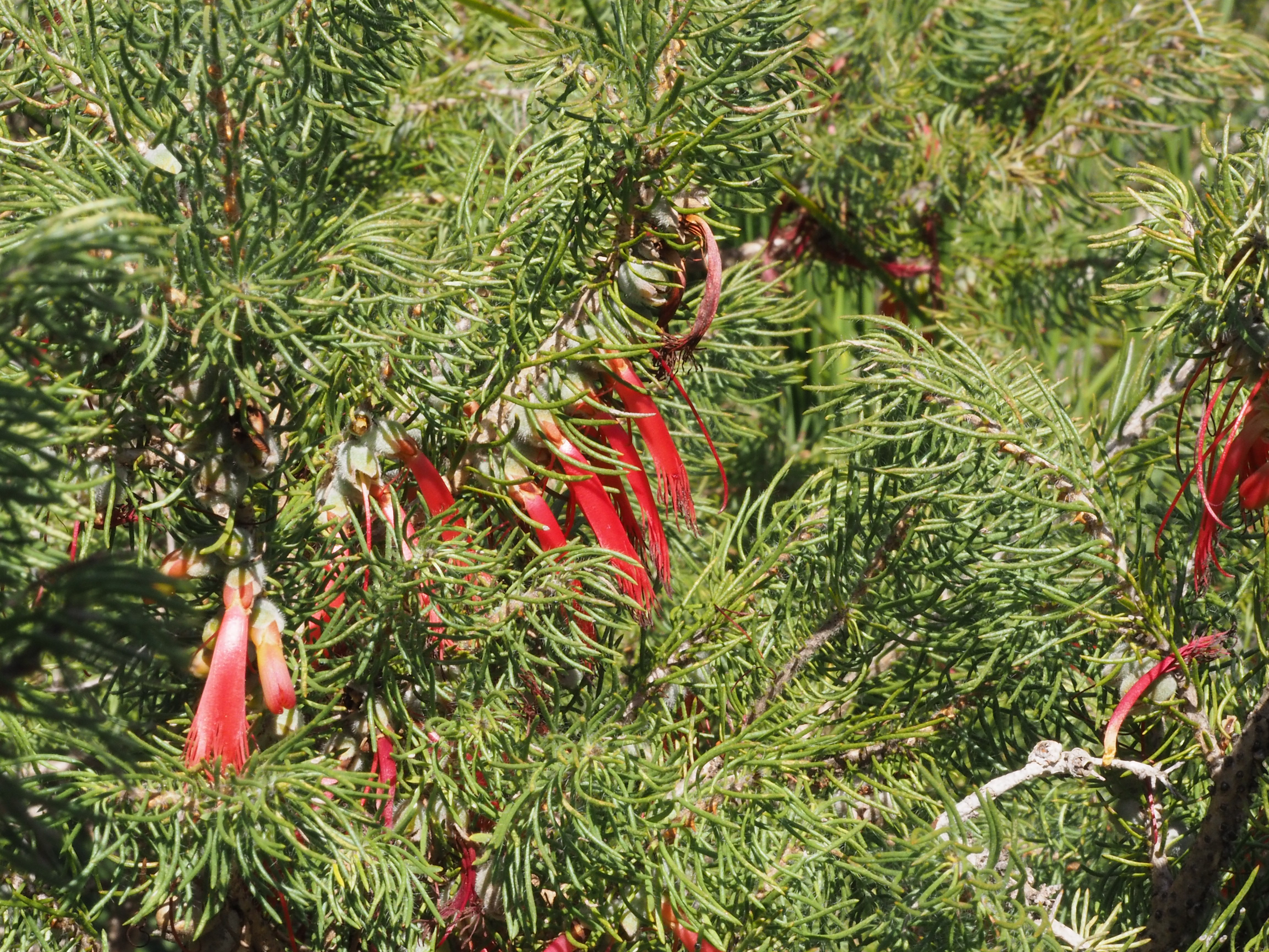 Calothamnus sanguineus growing in Lesueur National Park.